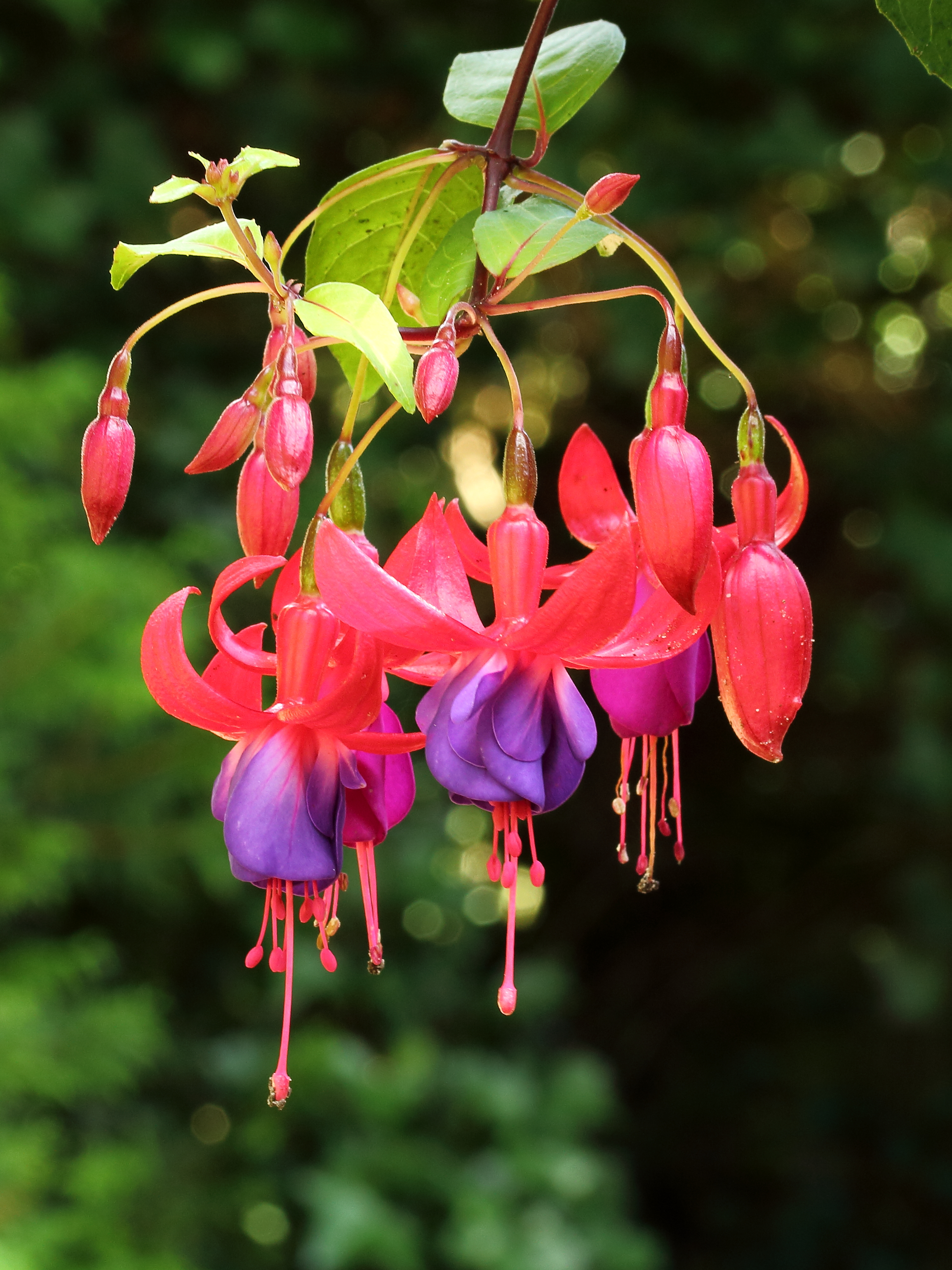 Fuchsia 'Multa'